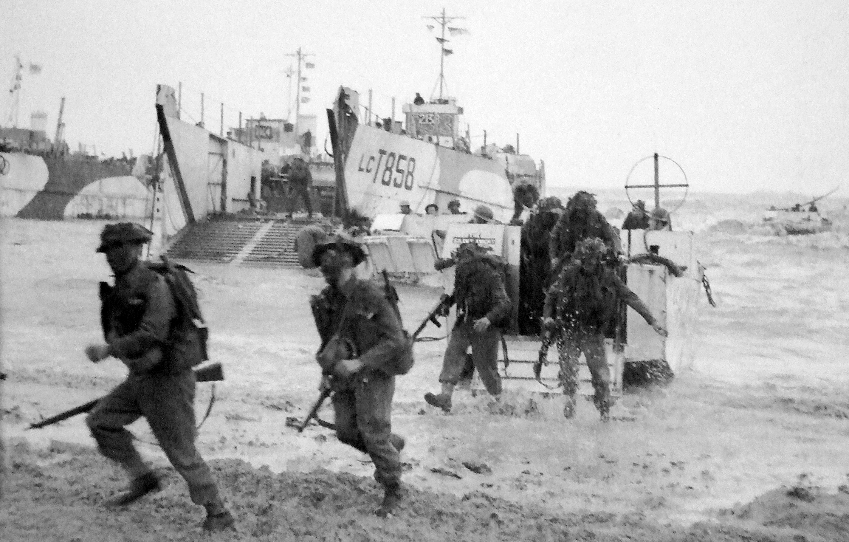 Caption 1: "The infantry, the humble foot soldiers, now about to fulfil their classical role." Caption 2: "Commando troops coming ashore from LCIs (Landing Craft Infantry)." The photograph shows commandos of the 50th (Northumbrian) Infantry Division of the British Army coming ashore from Landing Craft Infantry at Gold Beach near La Rivière-Saint-Sauveur, Normandy, France, on 6 June 1944 at the start of the Invasion of Normandy during World War II.